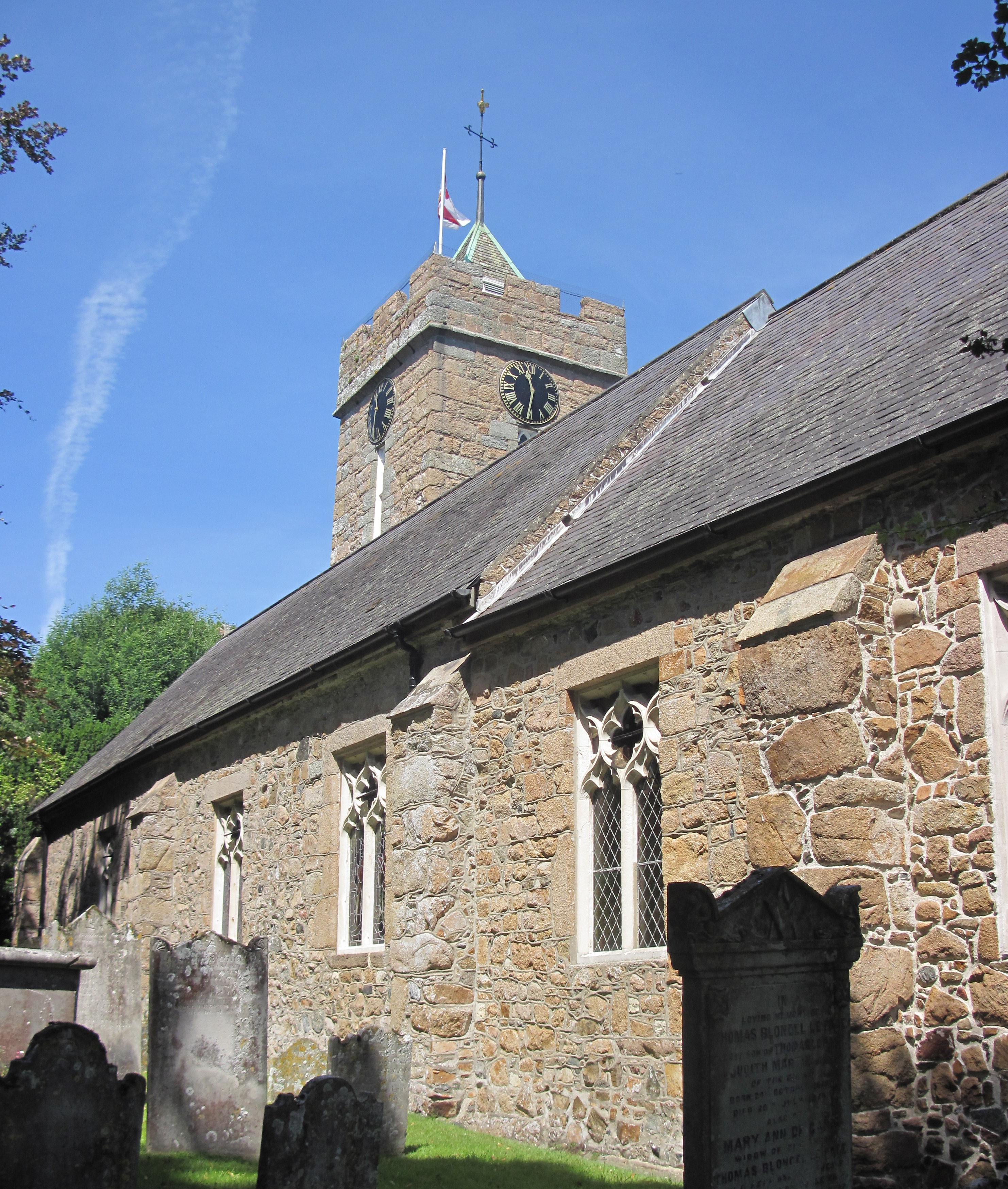 Guernsey, July 2011: St. Andrew parish church